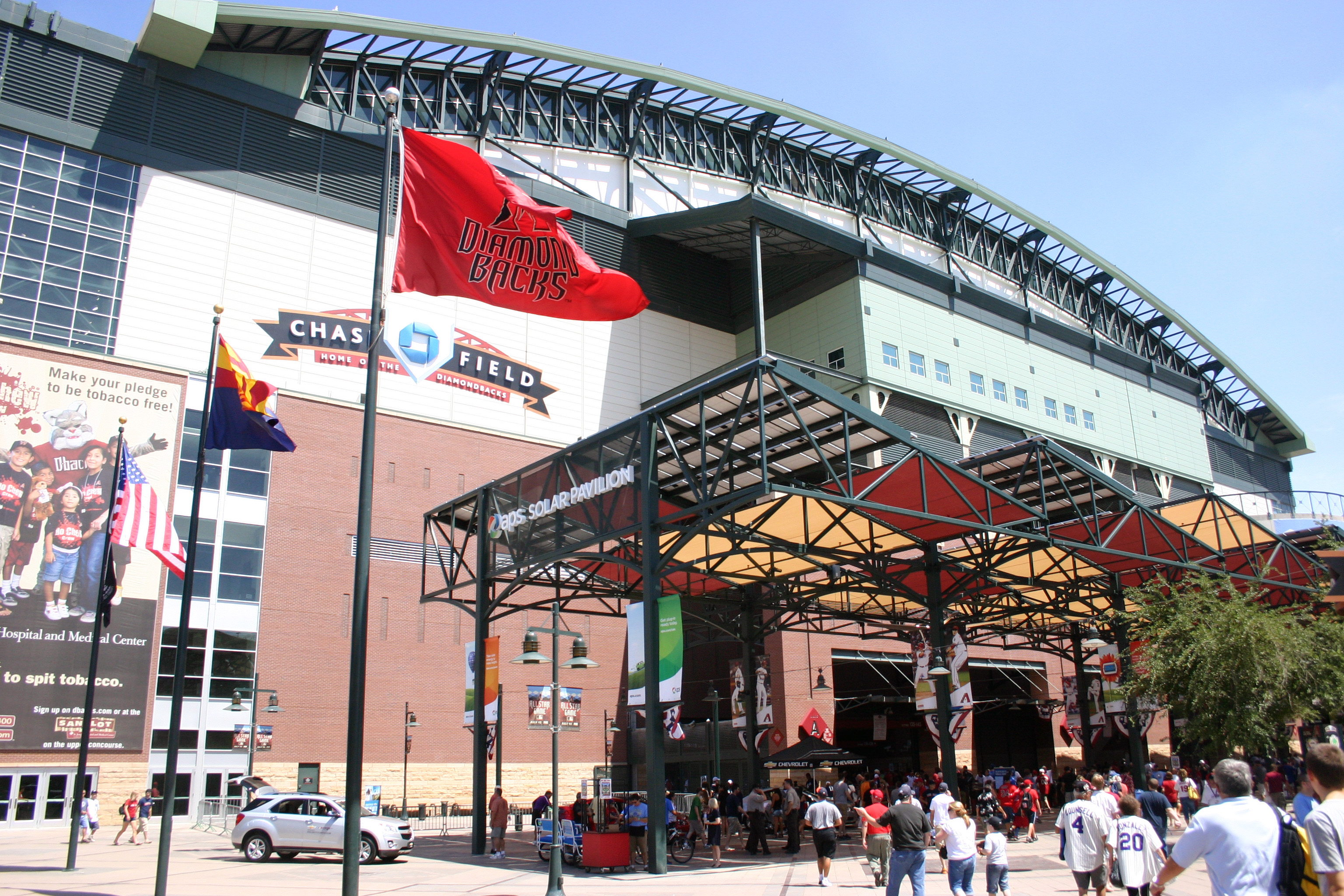 The outside of Chase Field